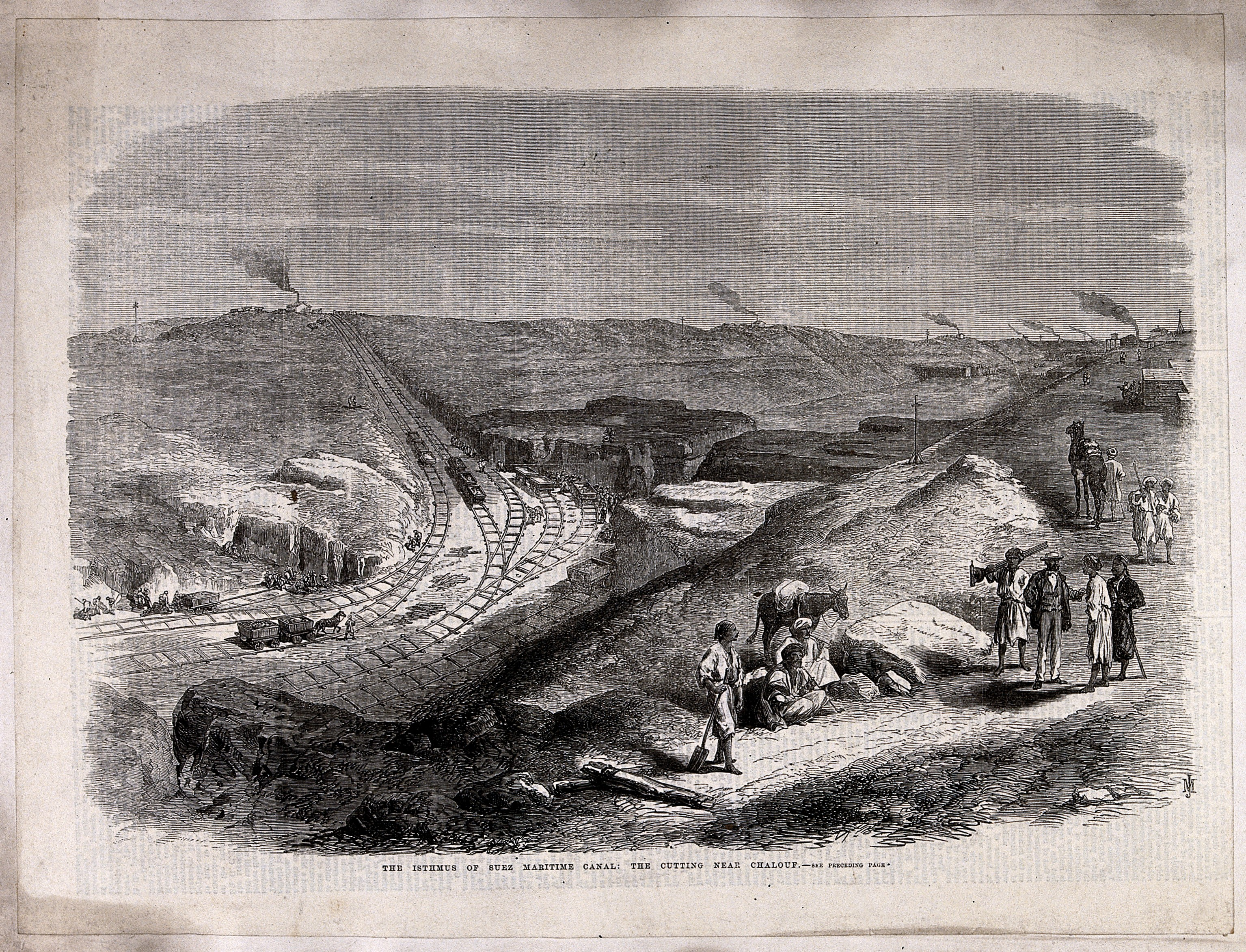 Civil engineering: Civil Engineering CAD Modeling A large number of civil engineering companies are making ready to make wider use of BIM by taking the BIM capabilities. Initially, BIM was focusing in the architectural area, but since part of the advancement and adoption of different industries, the several BIM software is in regular advancement to address the needs of civil and structural engineers, offering better tools that increase its use in the field. work on the Suez canal. Wood engraving by M. Jackson, c.1864. Iconographic Collections Keywords: Mason Jackson; Suez Canal